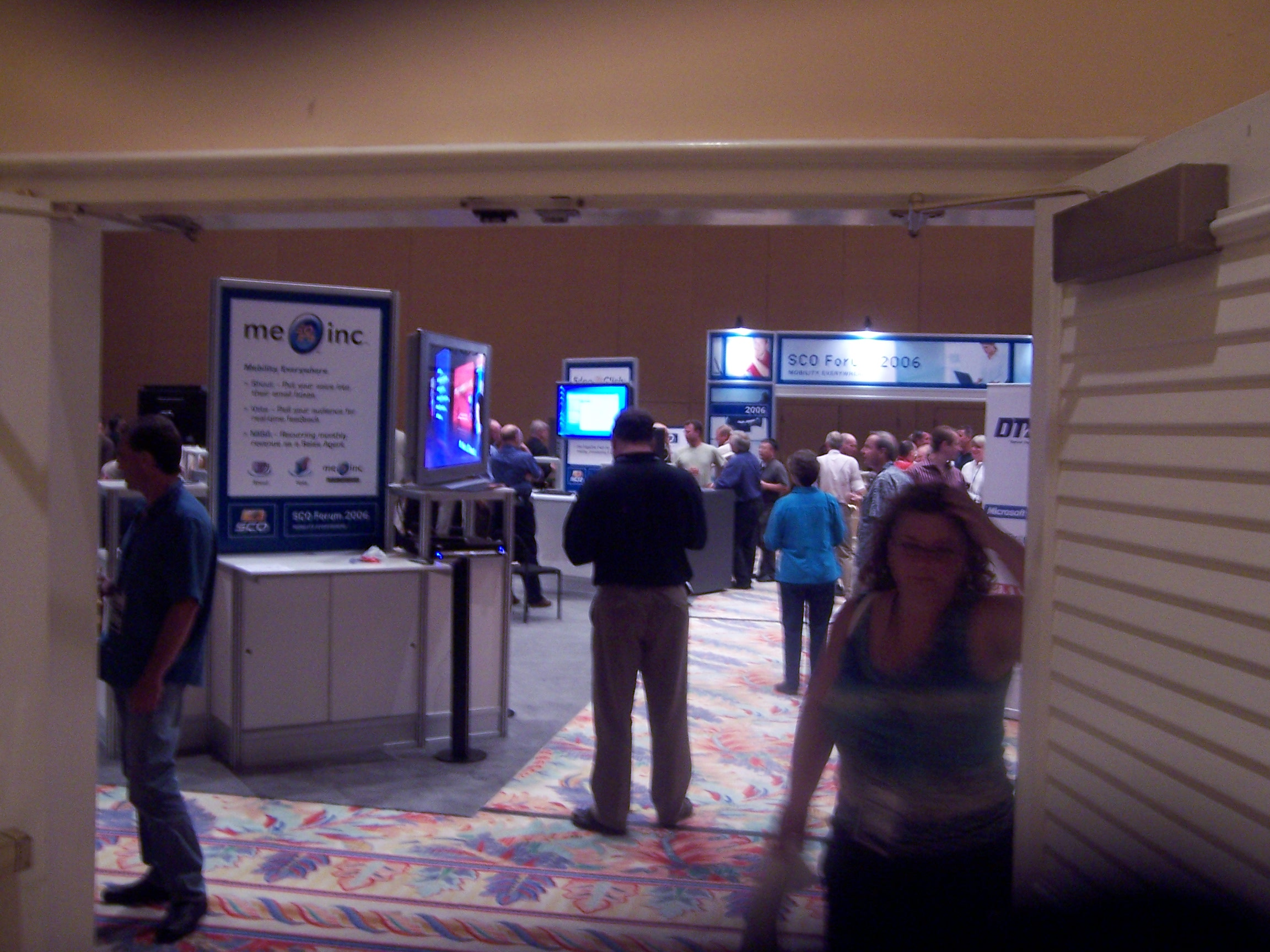 People walking around the trade show area at SCO Forum 2006 computer conference at the Mirage in Las Vegas, Nevada, during the Sunday evening cocktail reception portion of the event. The Me Inc. for smartphones initiative of SCO is emphasized.